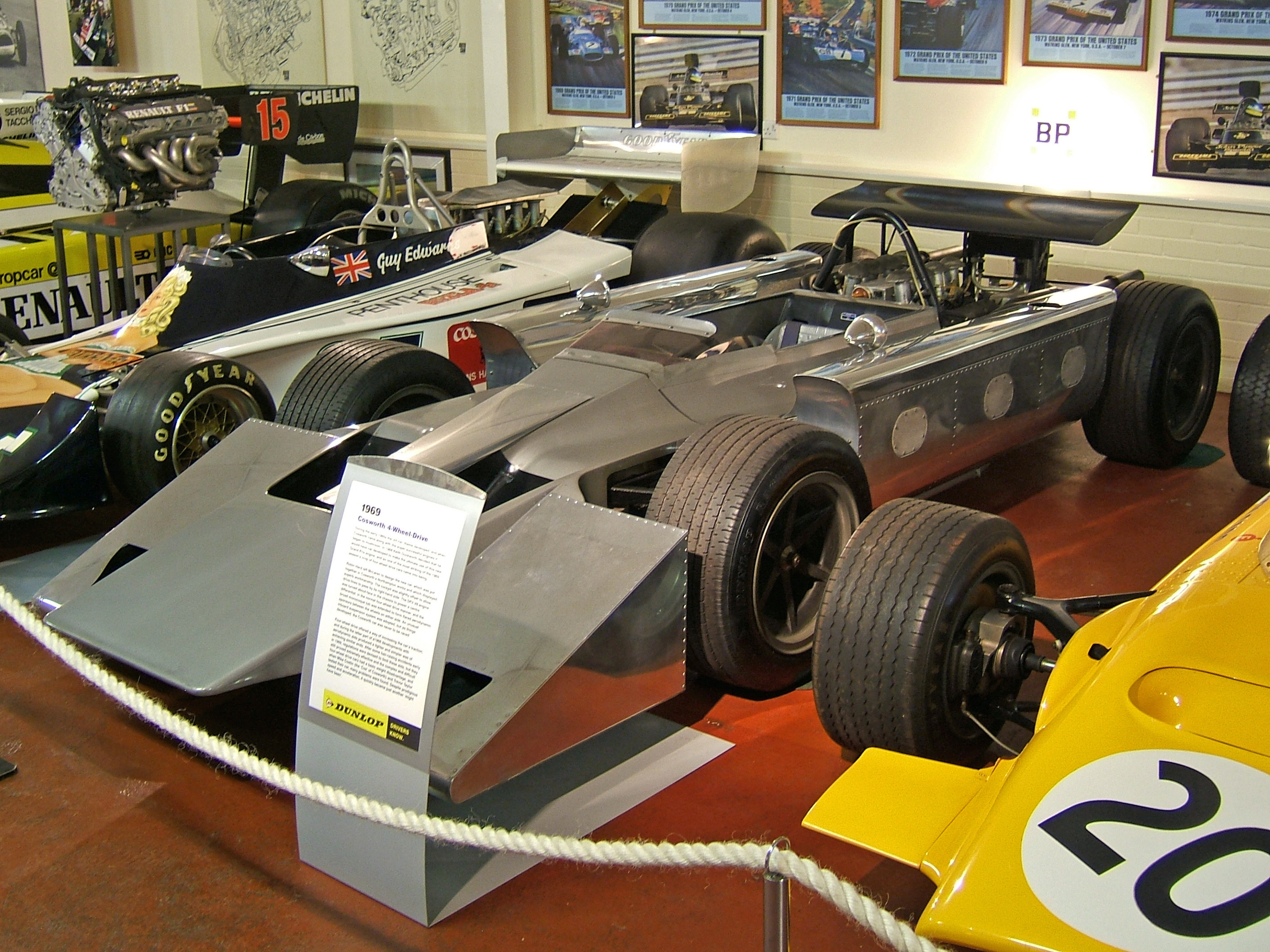 The unique Cosworth Formula One car. In the Donington Grand Prix Collection museum, Leics., UK.